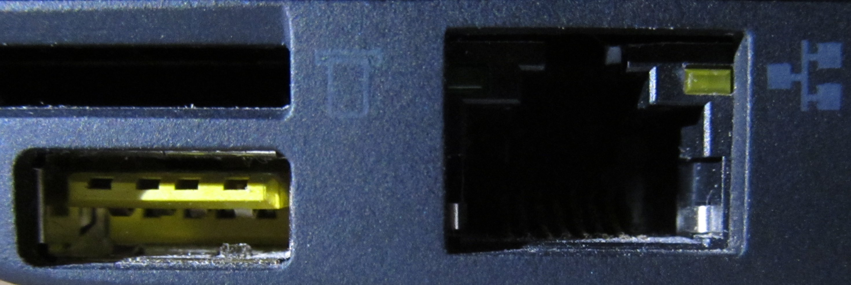 The yellow always on/sleep and charge USB port on the right side of a Thinkpad X220 laptop.